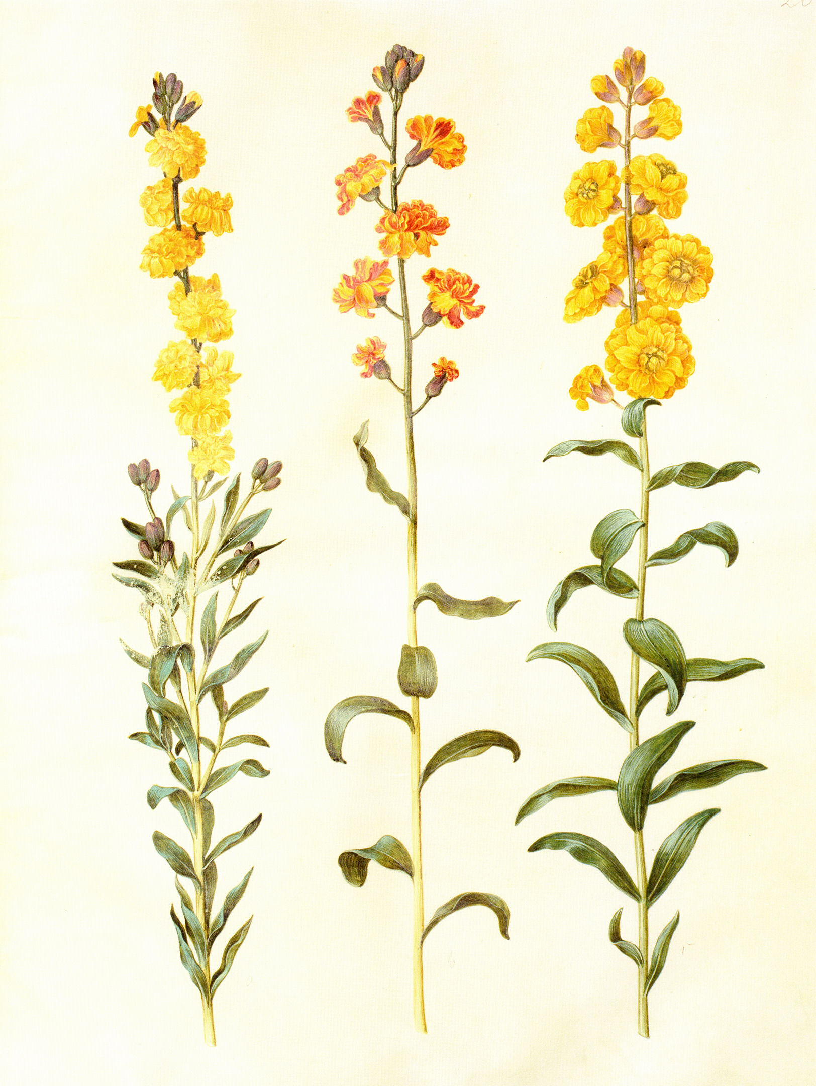 Cheiranthus cheirii, gouache on vellum, in: Gottorfer Codex